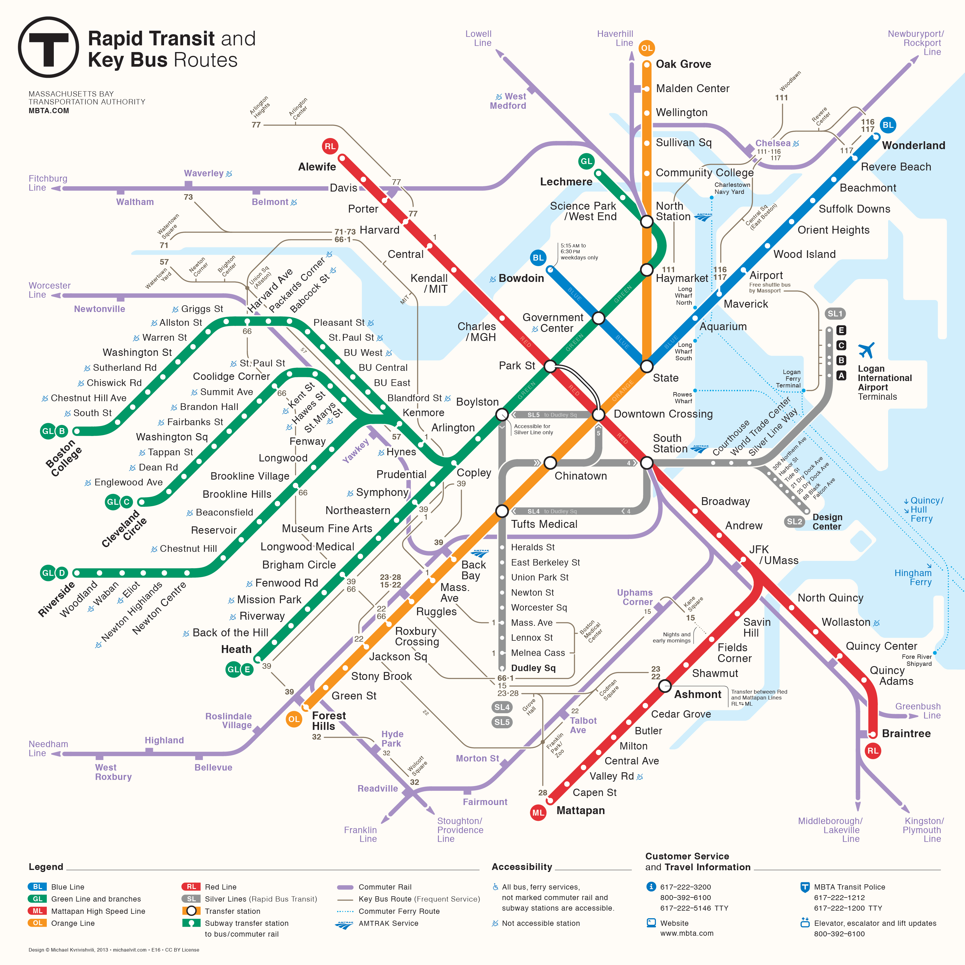 An unofficial redesign of the MBTA subway map, created for a contest held by the MBTA in 2013. A slightly modified version won the contest; a further modified version has been adopted as the official MBTA subway map. The designer's comments on his map: Re-design of the rapid transit/key bus routes T map. Designed in accordance to MBTA design standards. To simplify an overall impression of the map, I designed it from the scratch, based on set of strict rules. The aim was to create clear, easily readable and usable diagram, representing quite complicated system in as simple form as possible. There was no intention to mimic any particular visual style — in my design form follows function. This approach created some artifacts as a result, like capital B at the heart of the map, or "wing" of Green Line branches. Map still needs some work: water should be smoother and map should incorporate information on walking distances, specially in downtown.